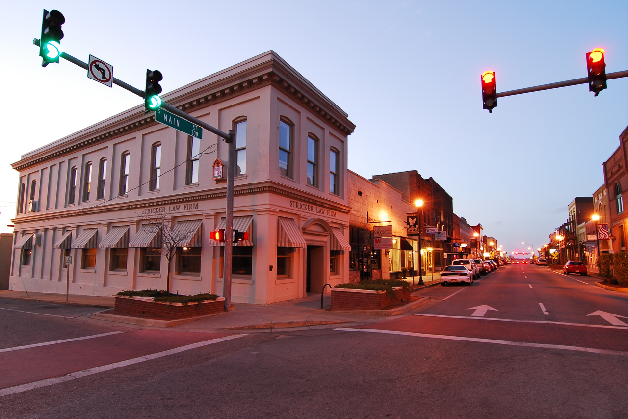 Part of downtown Jonesboro